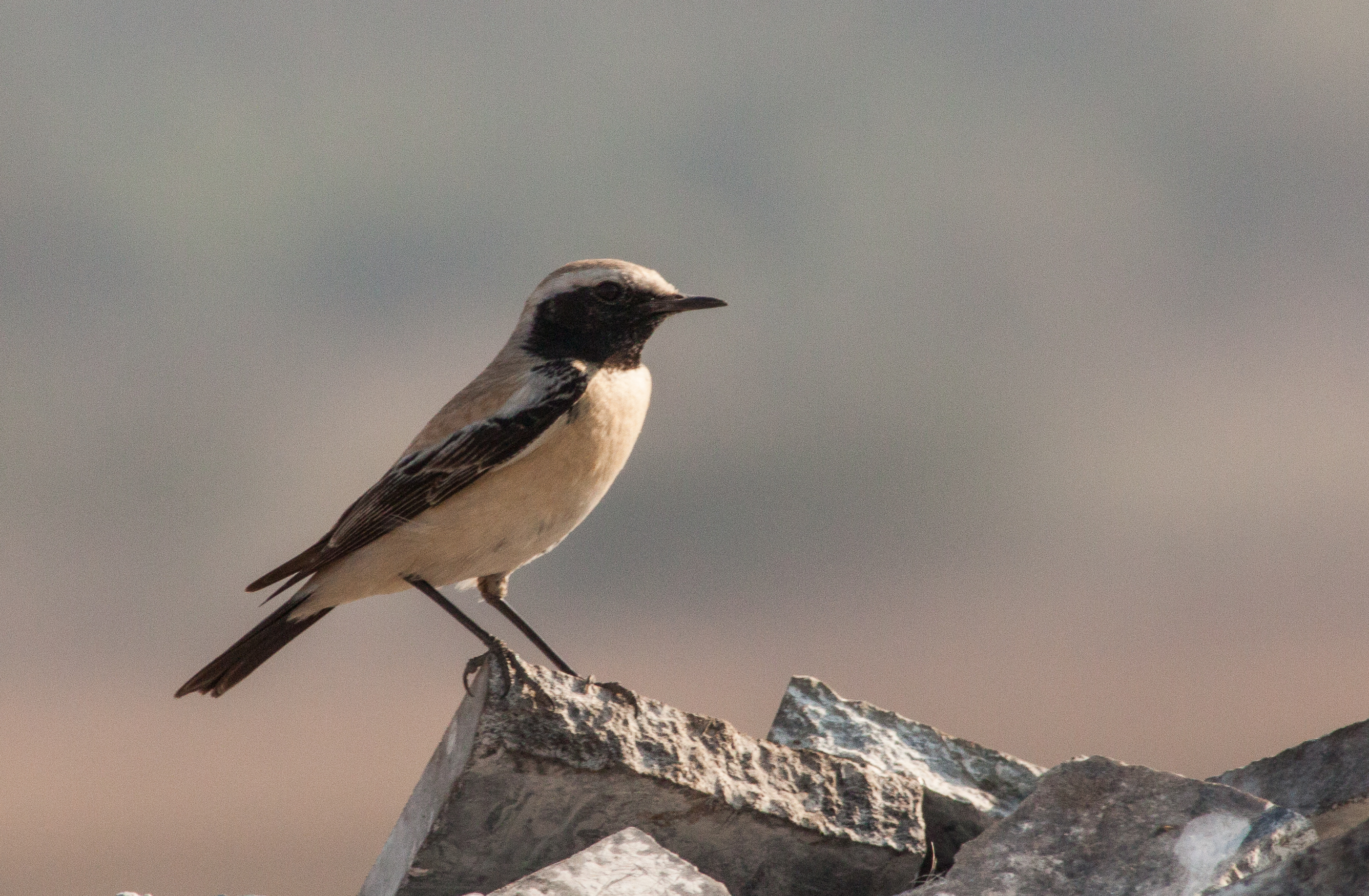 Desert Wheatear Male